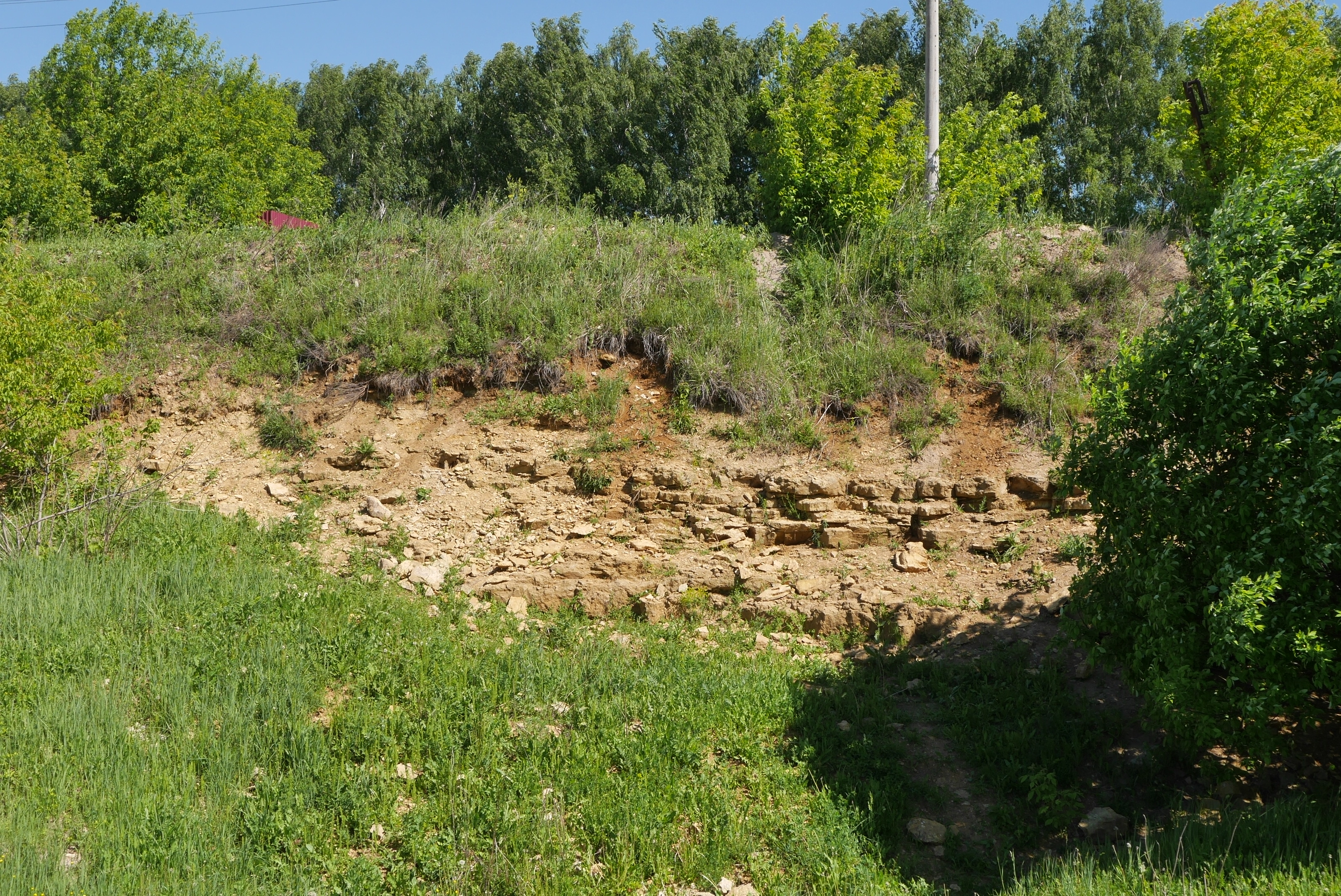 Stratotype of the Carboniferous system (Gzhel horizon) - Protected areas of Russia (5010231)